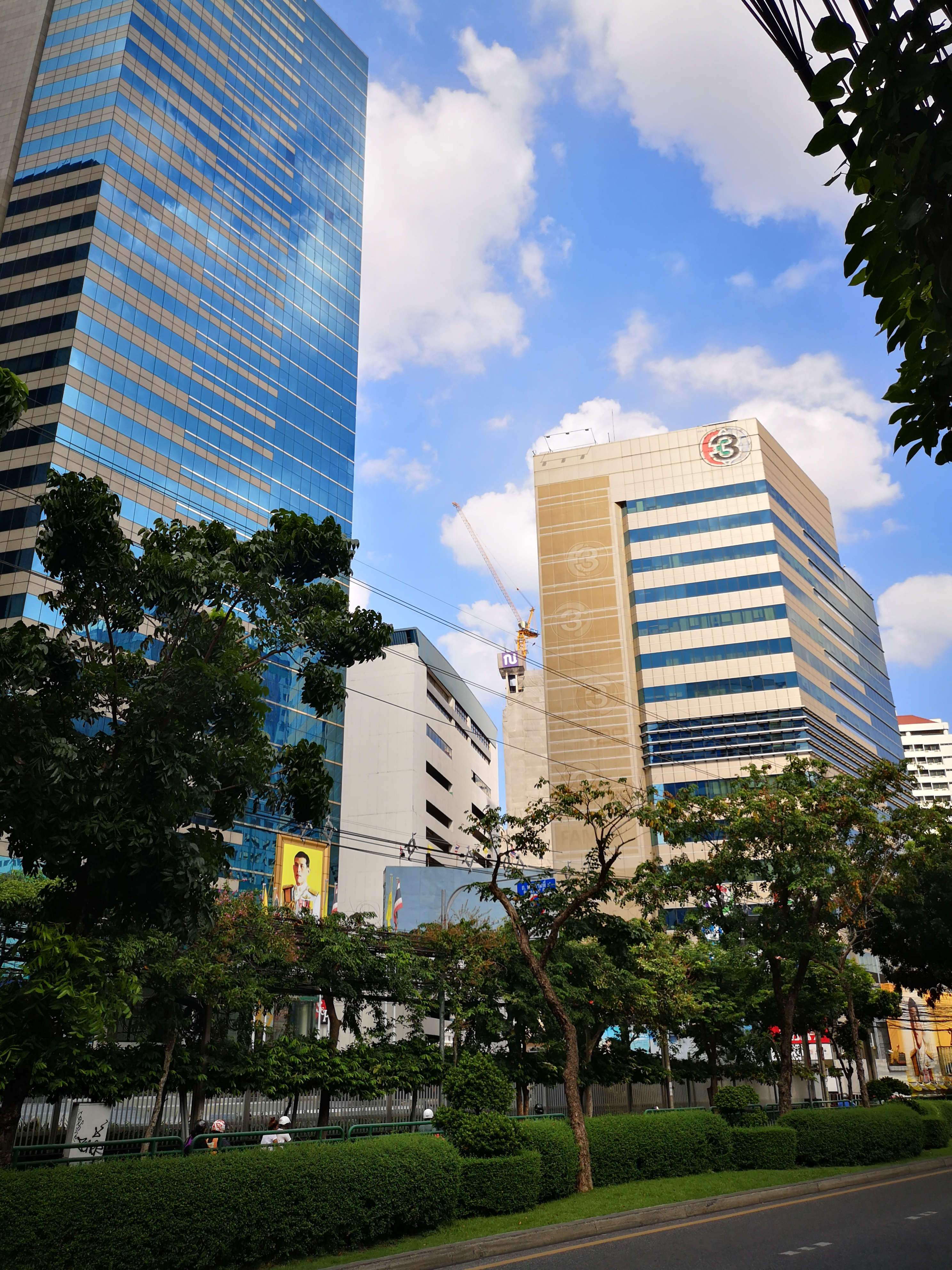 Maleenond Tower